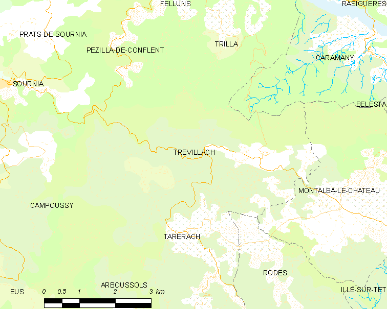 Map of French municipality